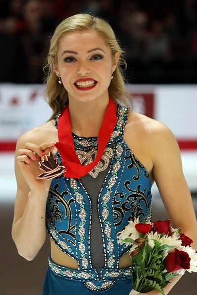 Alaine Chartrand at the 2017 Canadian Championships